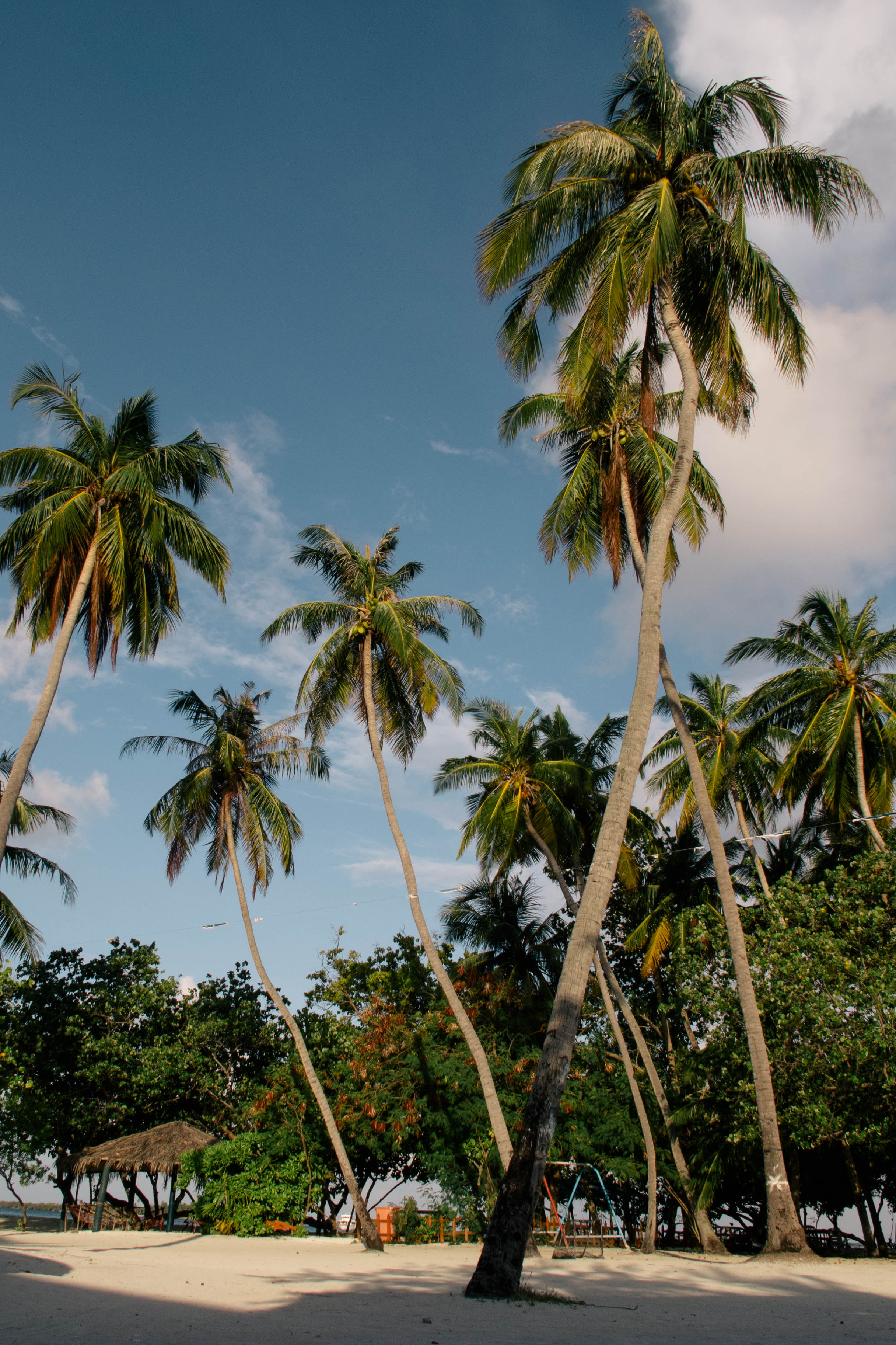 Imagine a park right in the middle of Himmafushi, with bright white beaches, a lagoon awash in deep blues and aquamarines, and soaring coconut palms swaying in the breeze.